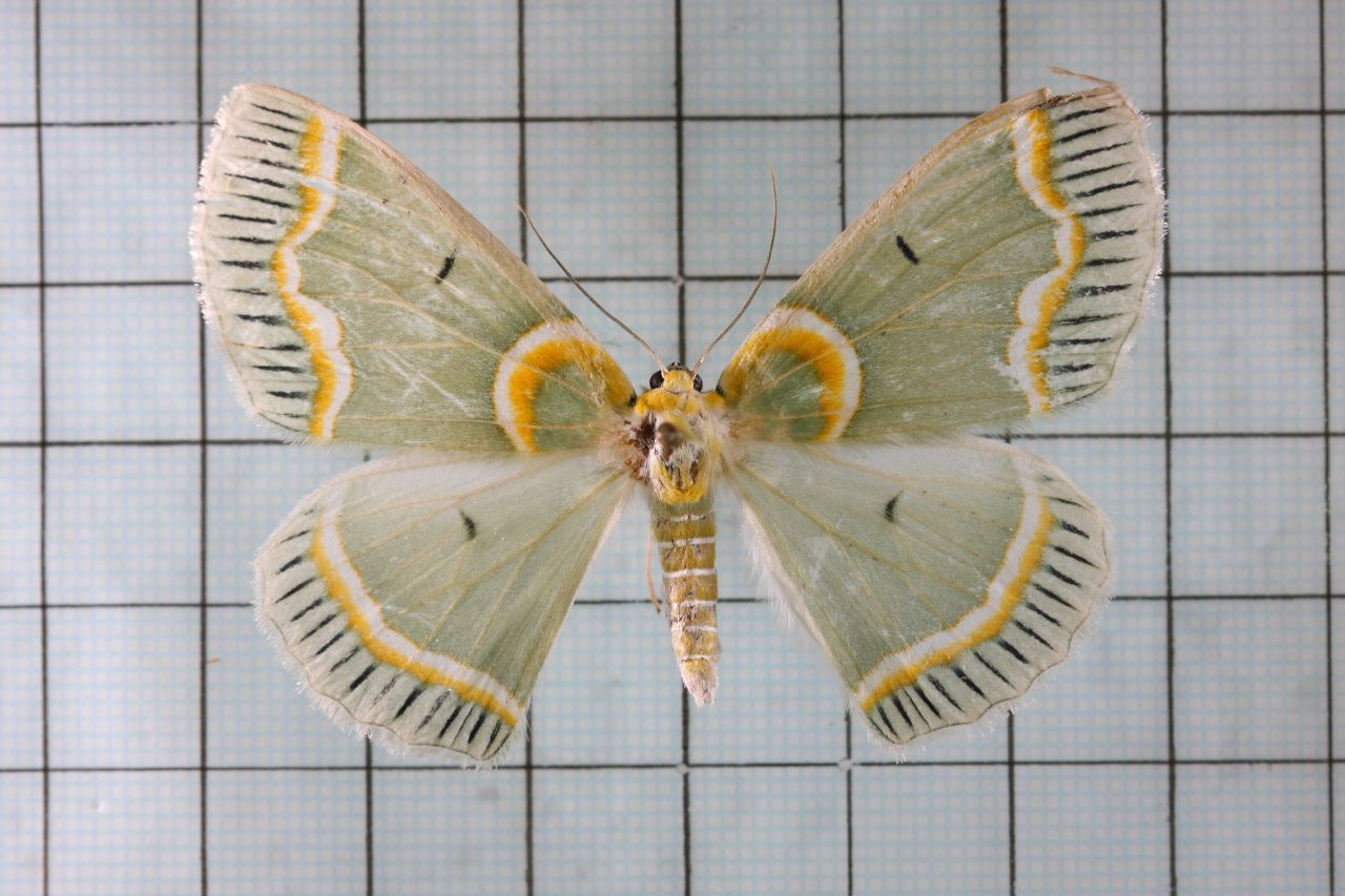 Iotaphora admirabilis (Oberthur, 1884) 青輻射尺蛾 臺灣尺蛾科圖鑑1:P.61